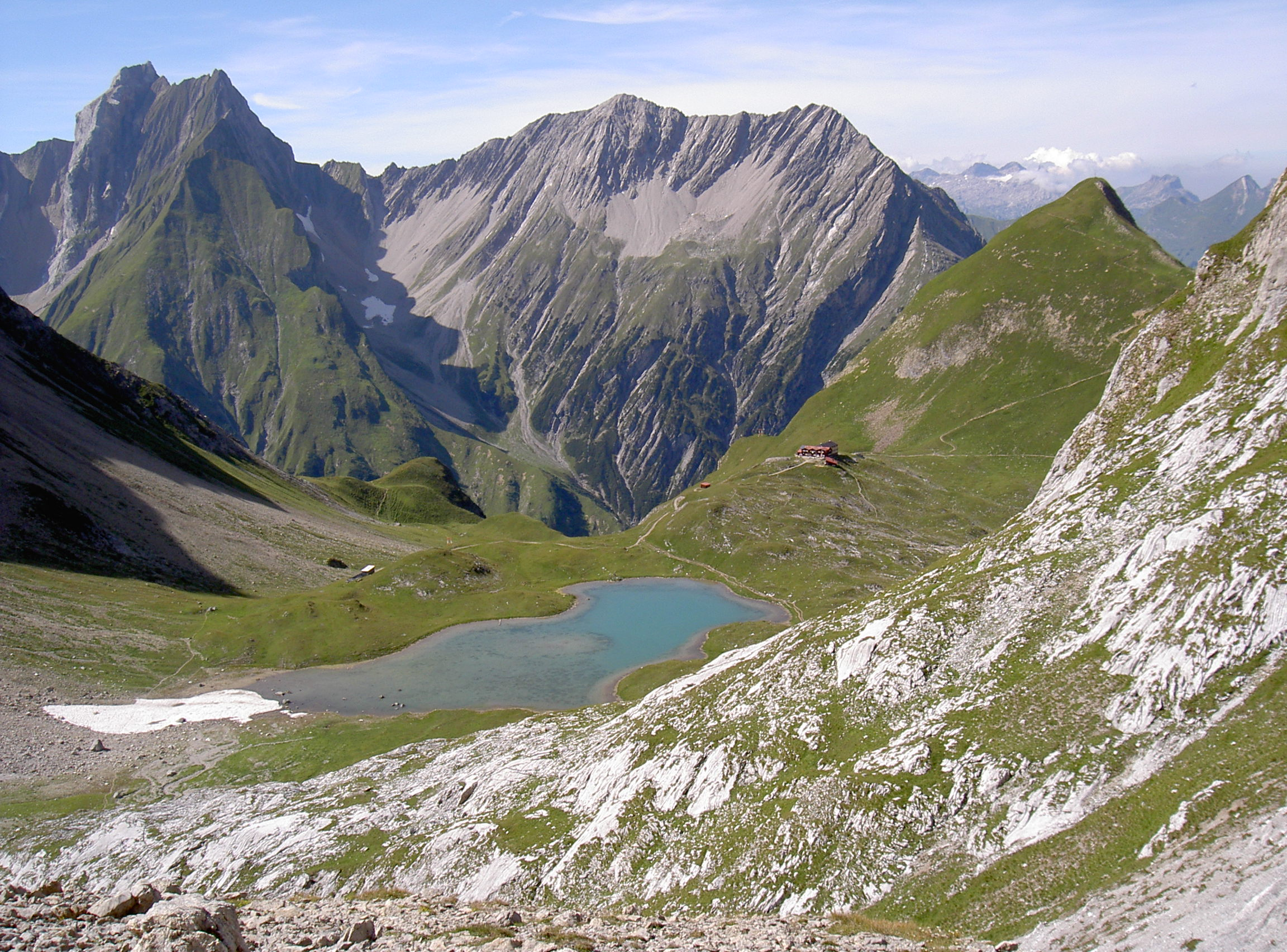 Freispitze (2884m, left) and Saxerspitze (2690m, right) in Lechtaler Alps as seen from above Memminger Hütte (with "Unterer Seewisee") from east